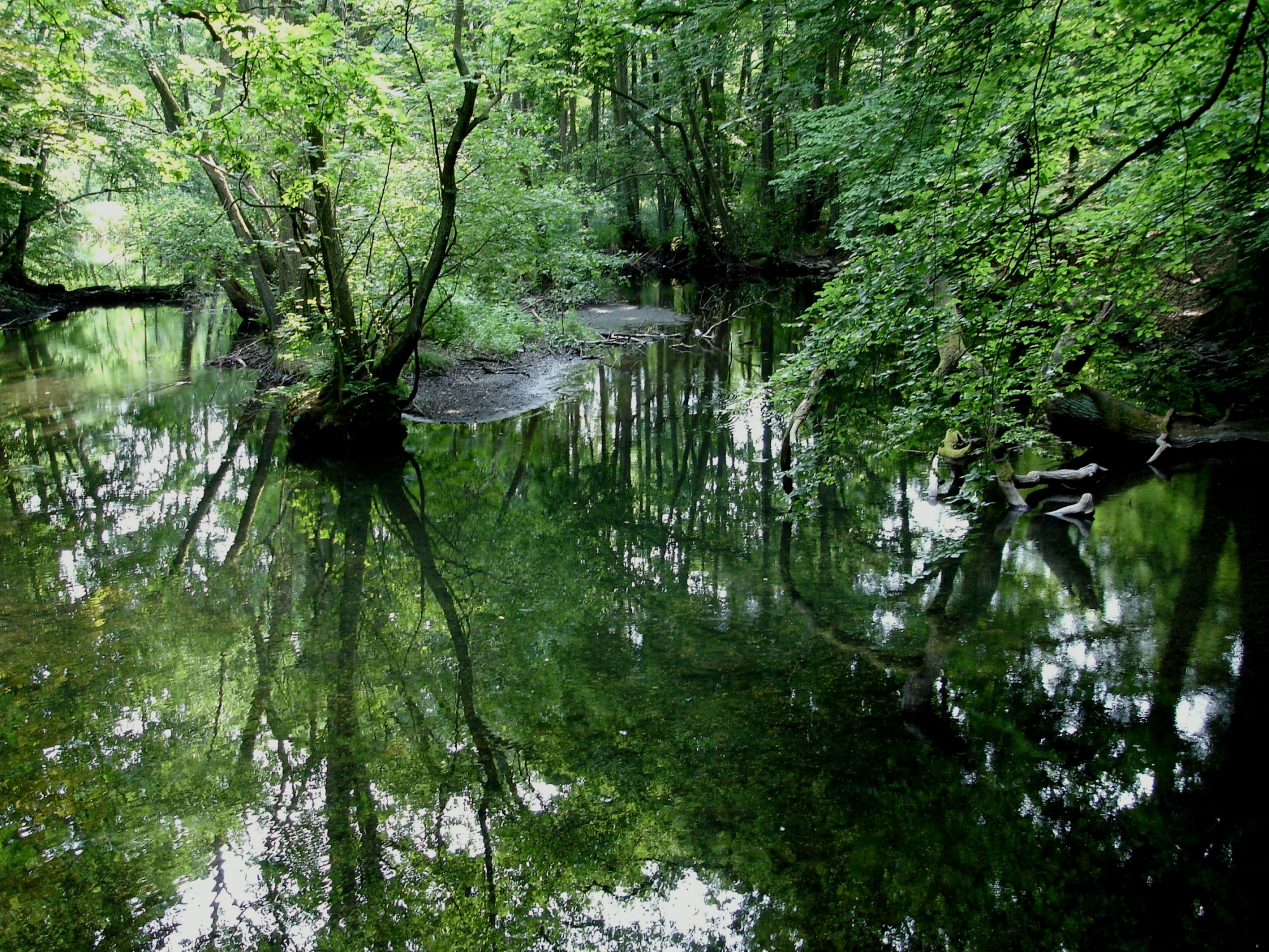 Nature protection area Nebel valley, between Serrahn and Kuchelmiß, Mecklenburg-Vorpommern, Germany